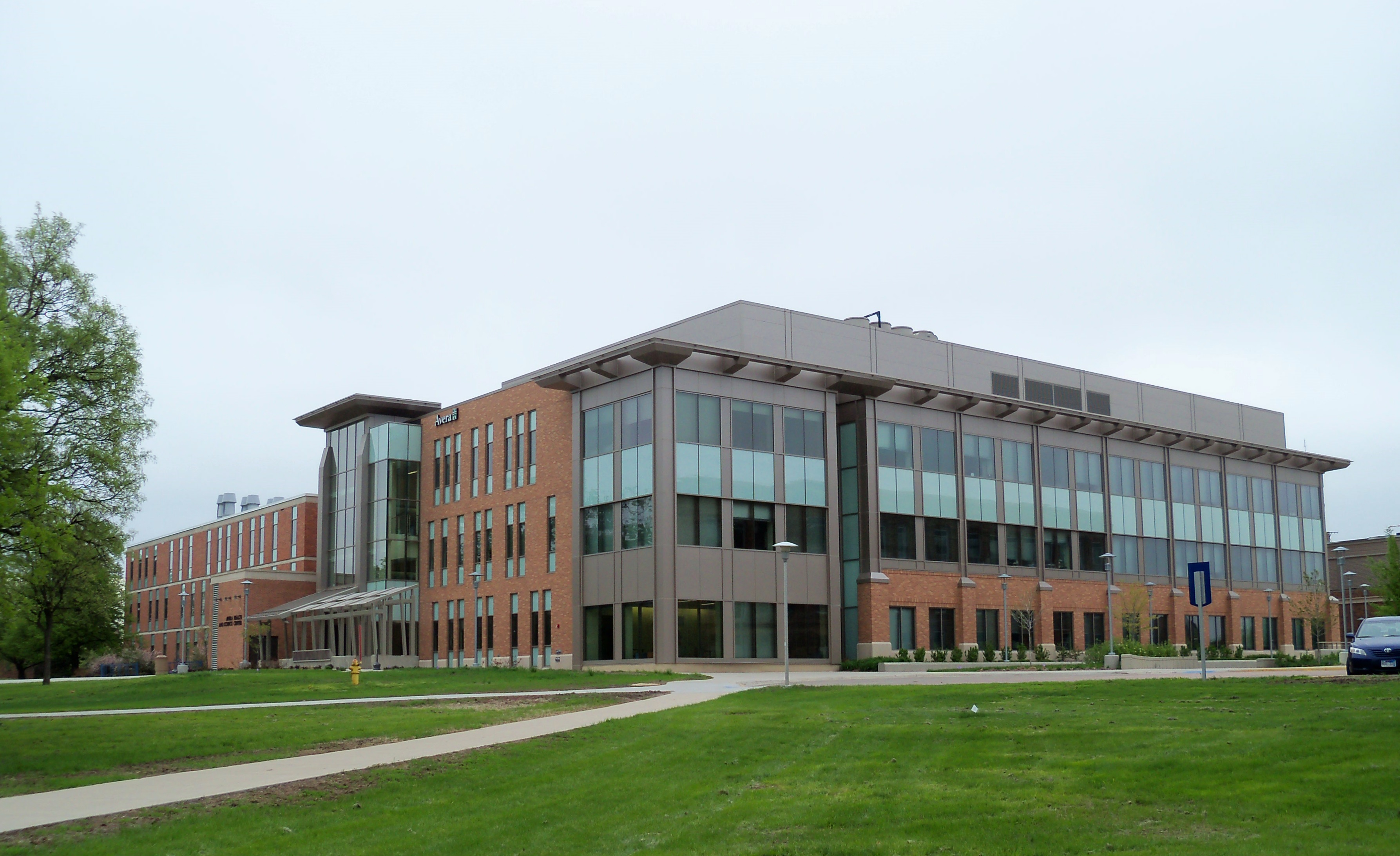 Avera Health Sciences Center on the campus of South Dakota State University in Brookings, South Dakota, USA.